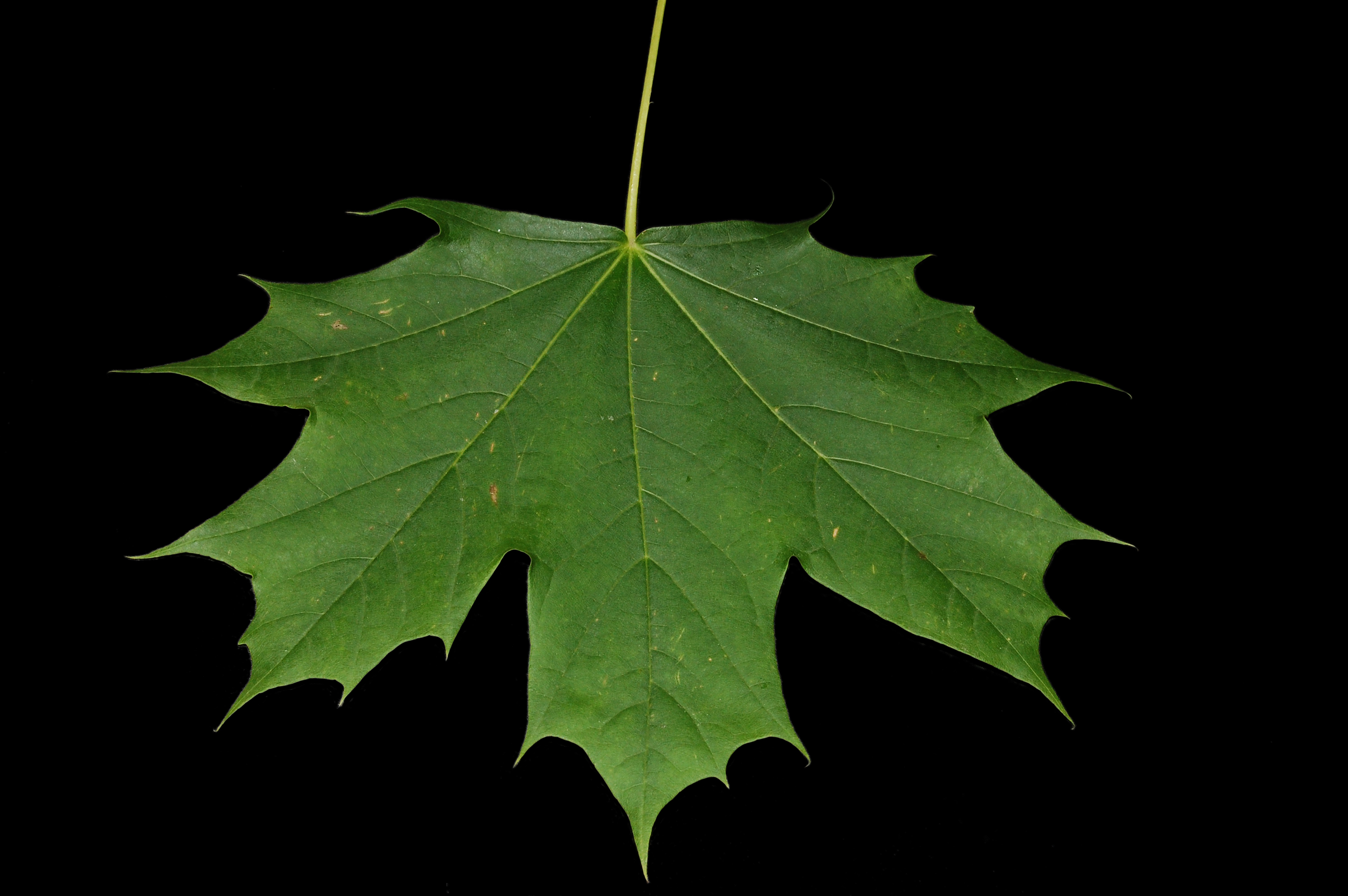 An image of a Norway Maple leaf.